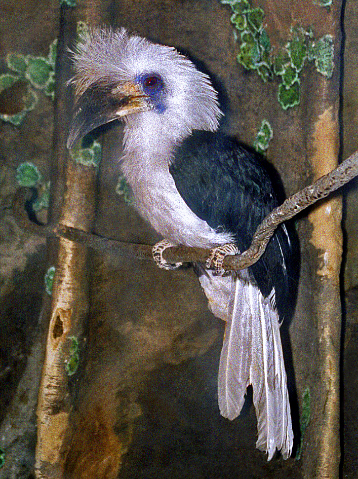 Berenicornis comatus. Male